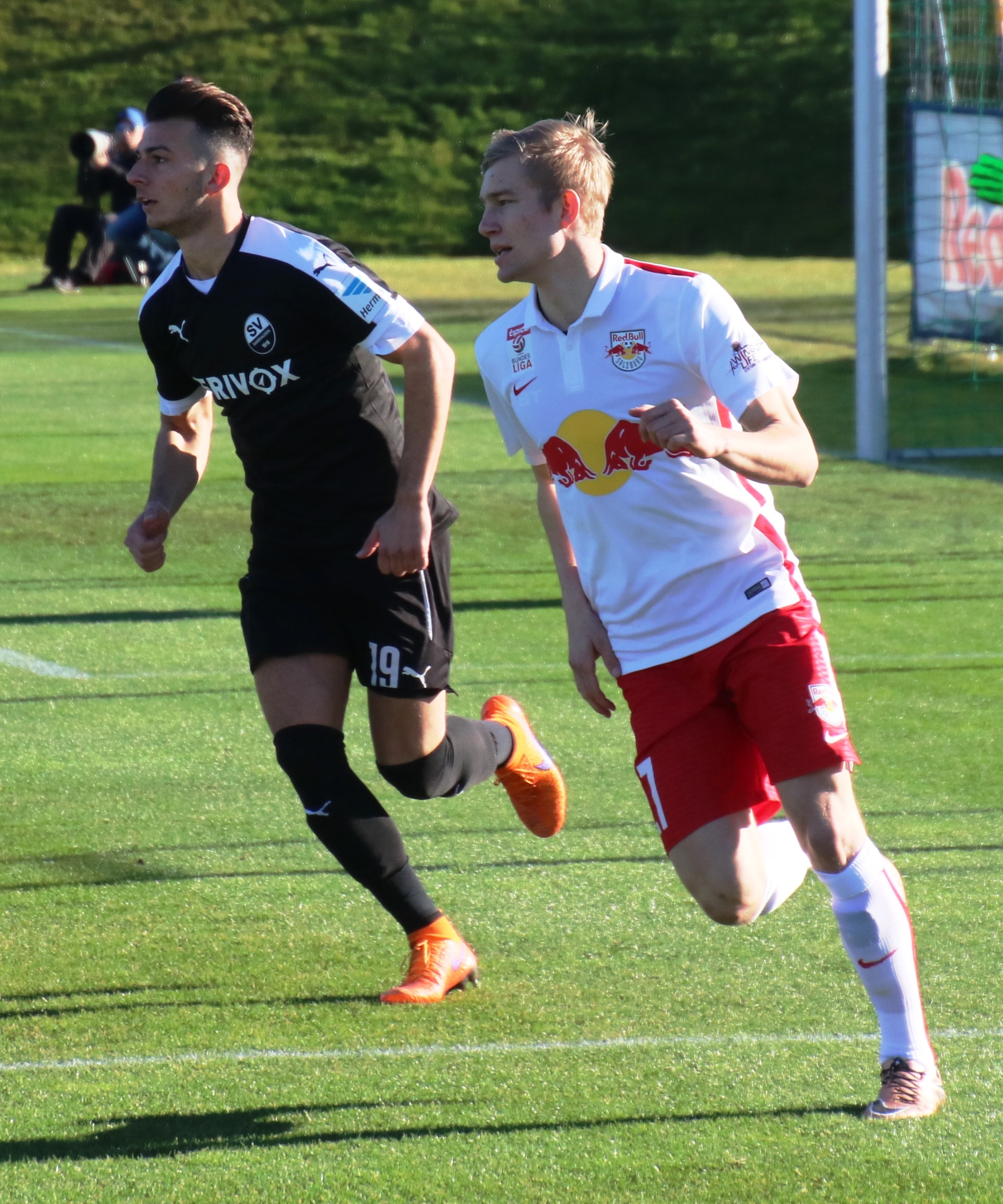 Friendly match 2016